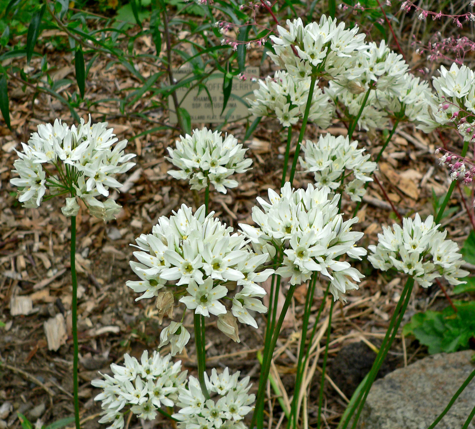 Photo of Triteleia hyacinthina at the University of California Botanical Garden